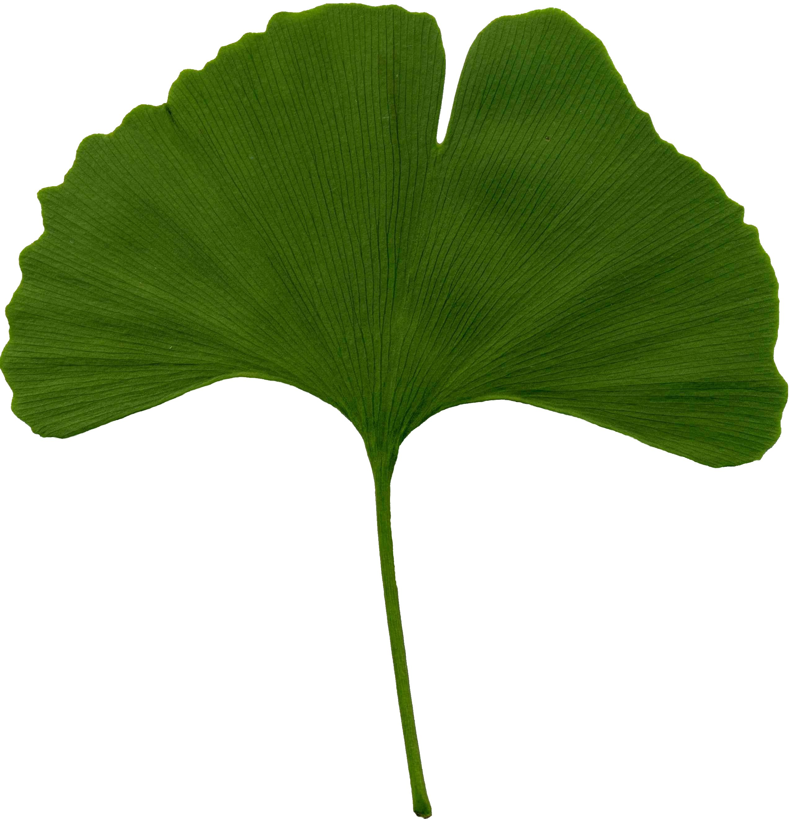 Ginkgo biloba scanned leaf